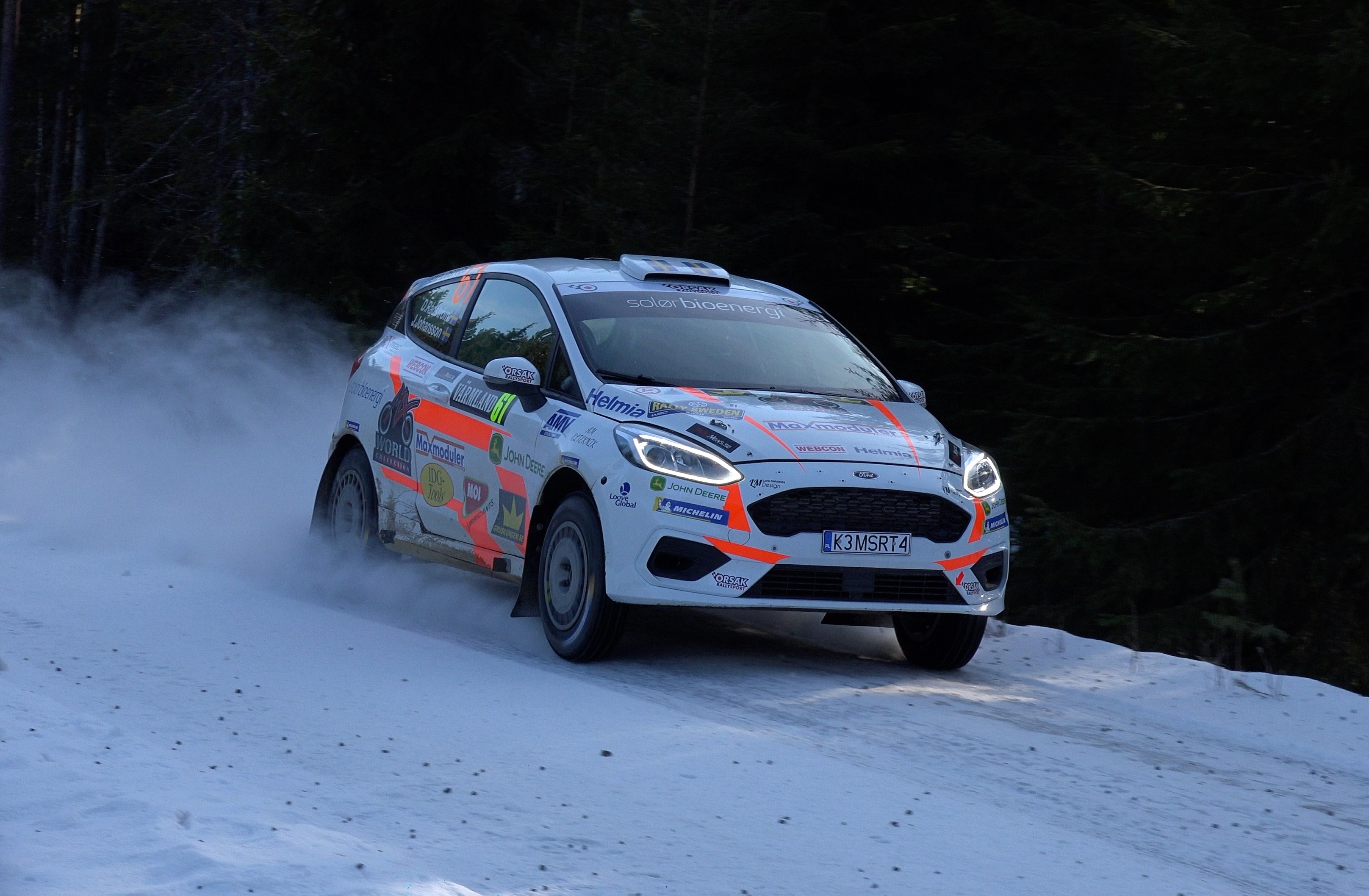 Dennis Rådström at Rally Sweden 2020.